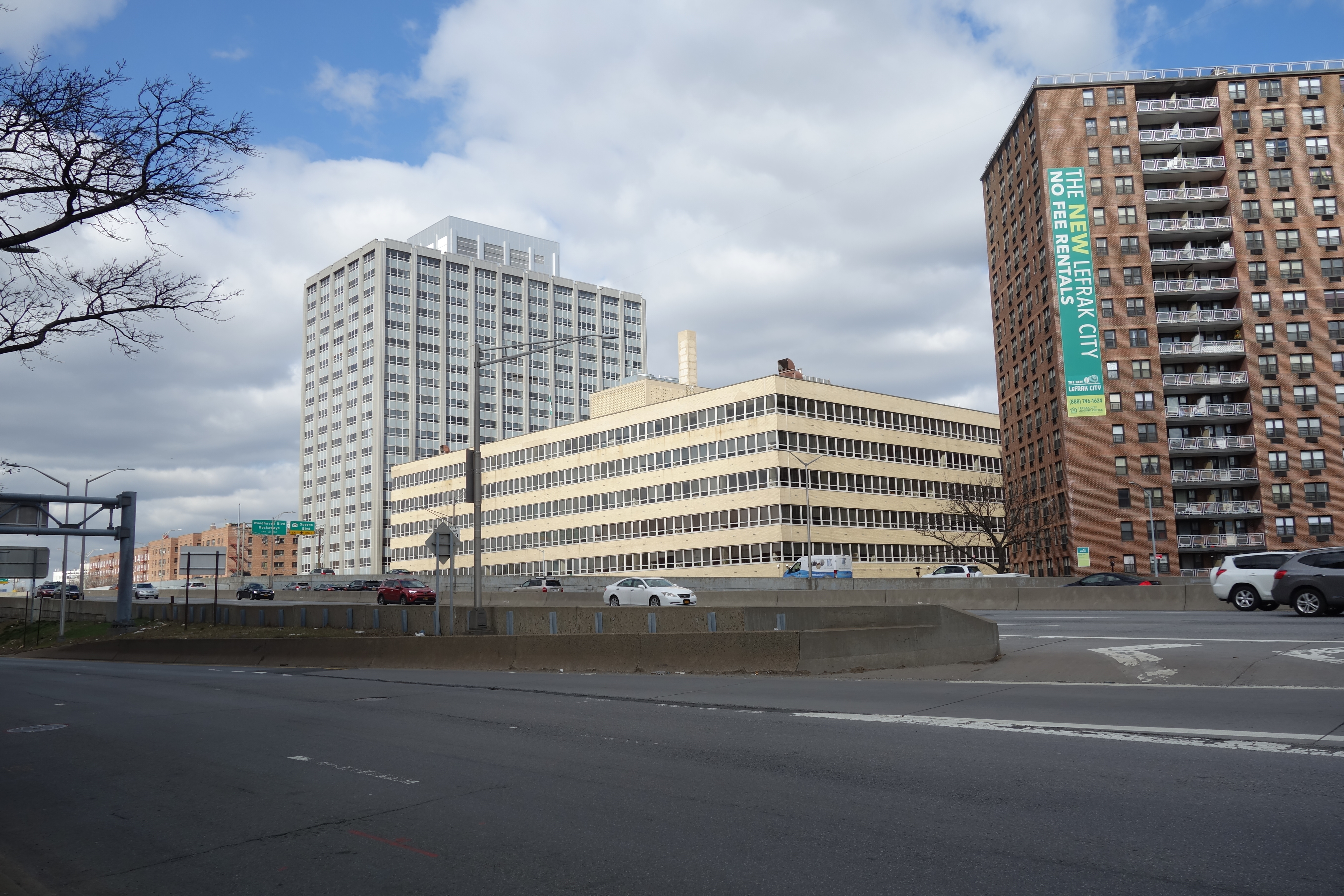 Looking north across the Long Island Expressway at LeFrak City, at Horace Harding Expressway South and 97th Place in Rego Park, Queens. Pictured are the two office buildings in the complex. The one to the far left is One LeFrak City Plaza, while the one to the right is used by the DEP. Prior to the late 1980s, both buildings housed the Social Security Administration's Northeast Program Service Center.